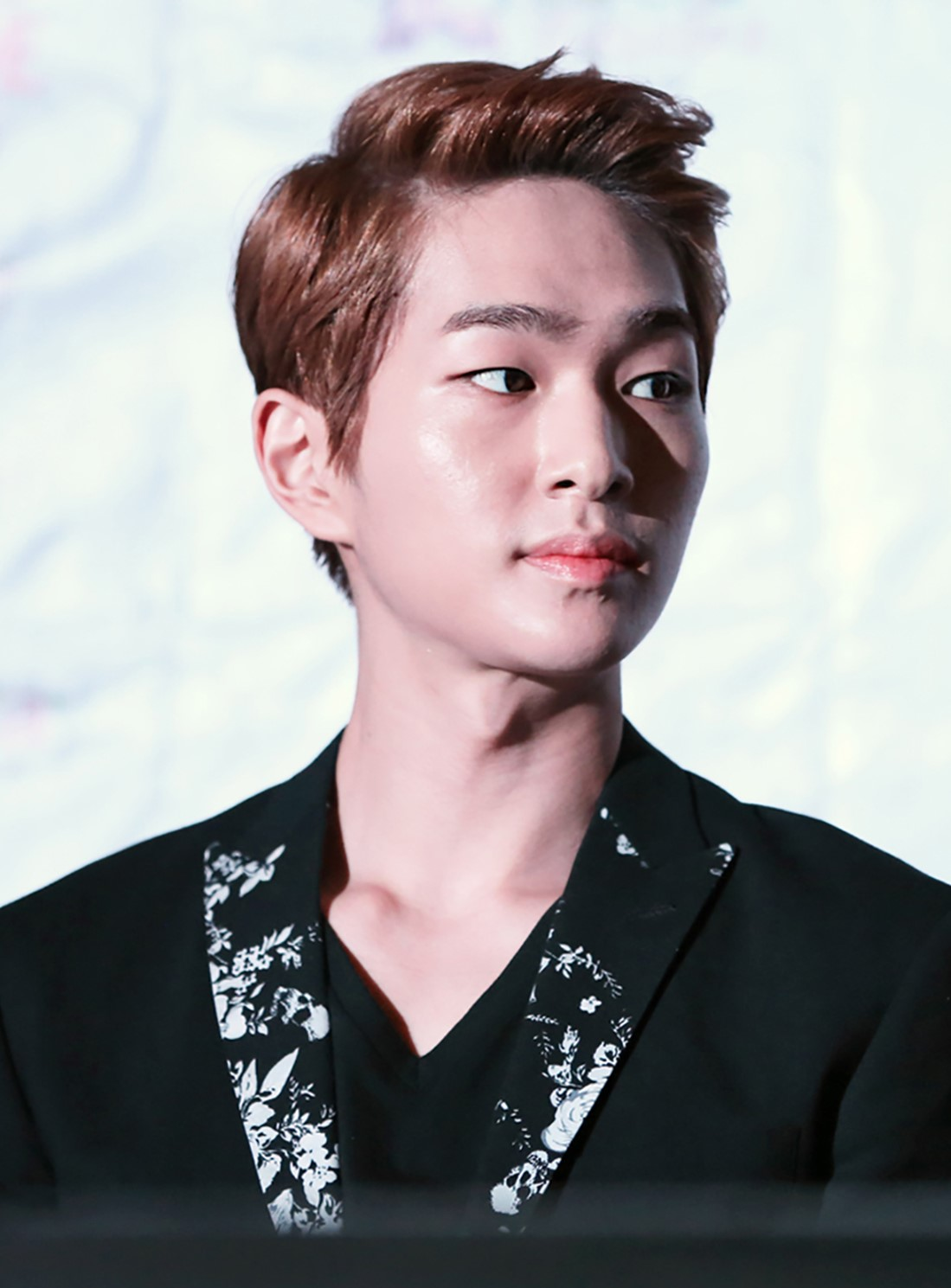 Onew at the K-Pop Republic Press Conference, on September 7, 2013.